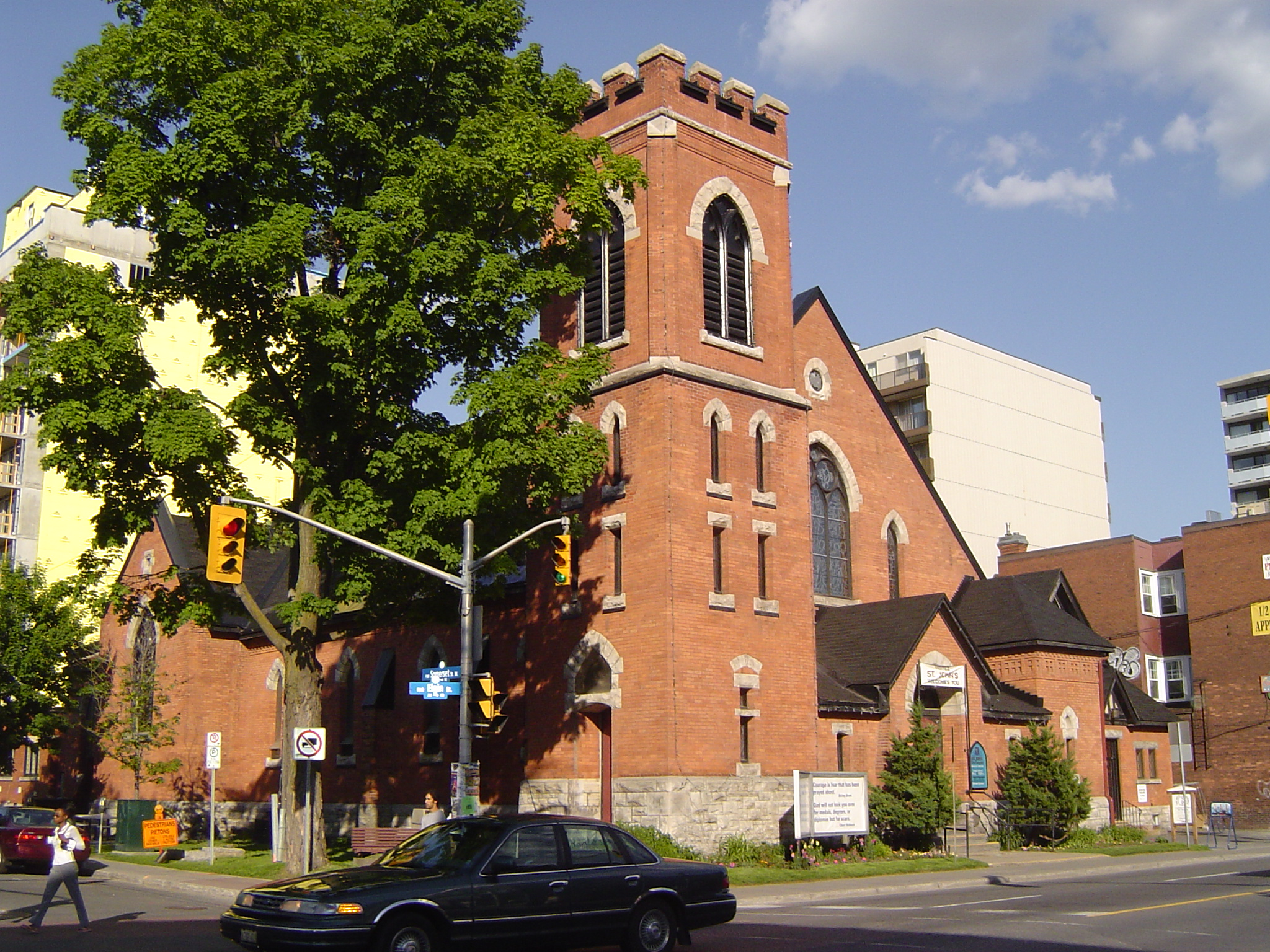 The Anglican Church of St. John the Evangelist, Ottawa, Ontario, Canada, taken on June 24, 2007 on the corner of Elgin and Somerset Streets. This image is to go in the wikipedia article, "Anglican Church of St. John the Evangelist (Ottawa)"